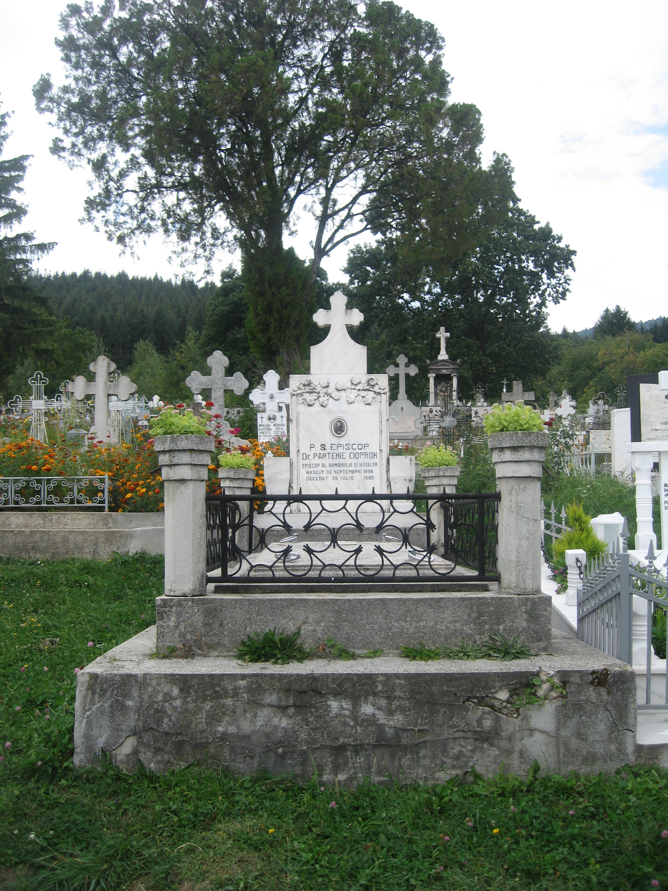 Partenie Ciopron